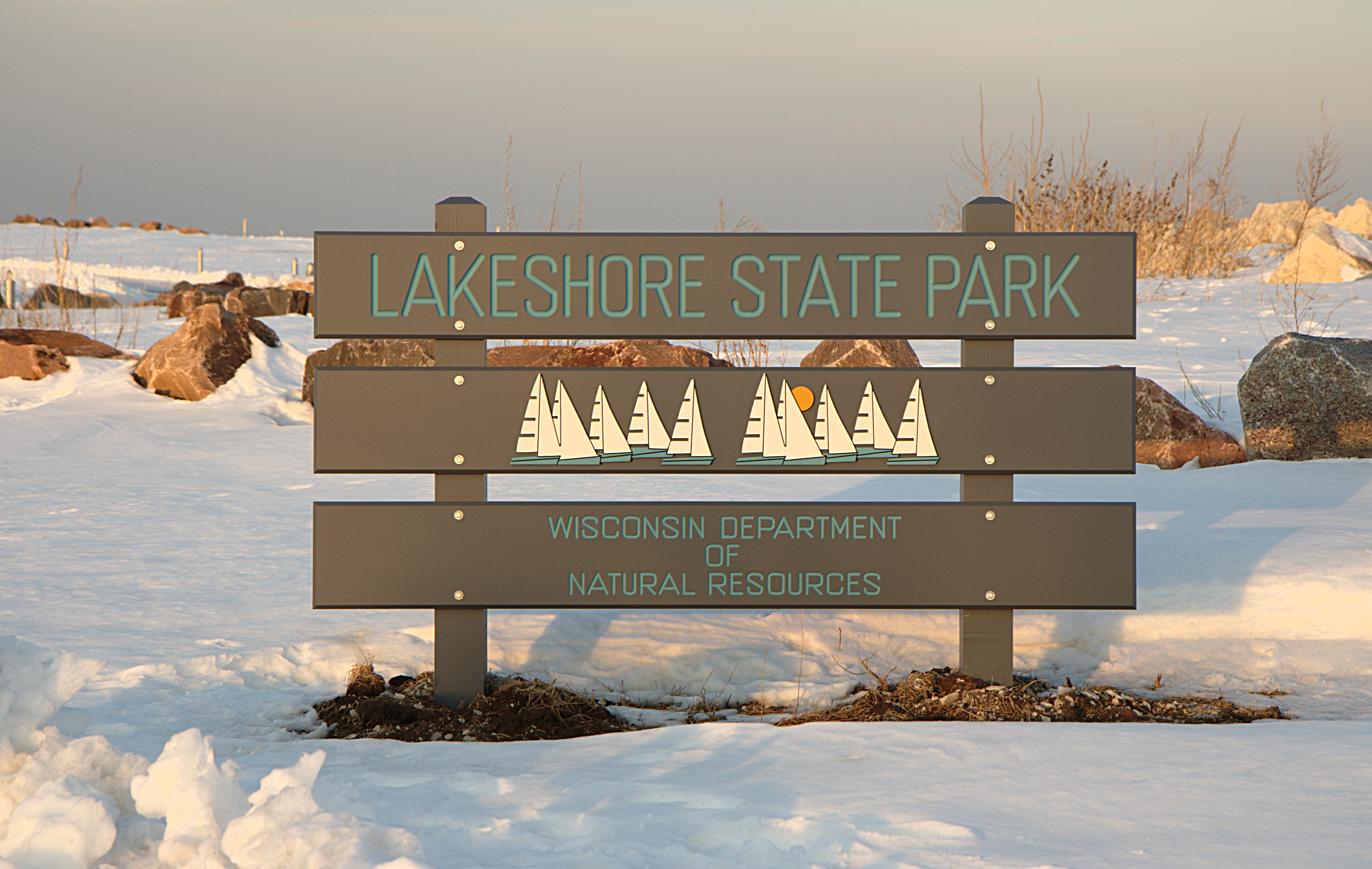 Sign for Lakeshore State Park during wintertime, 2008.